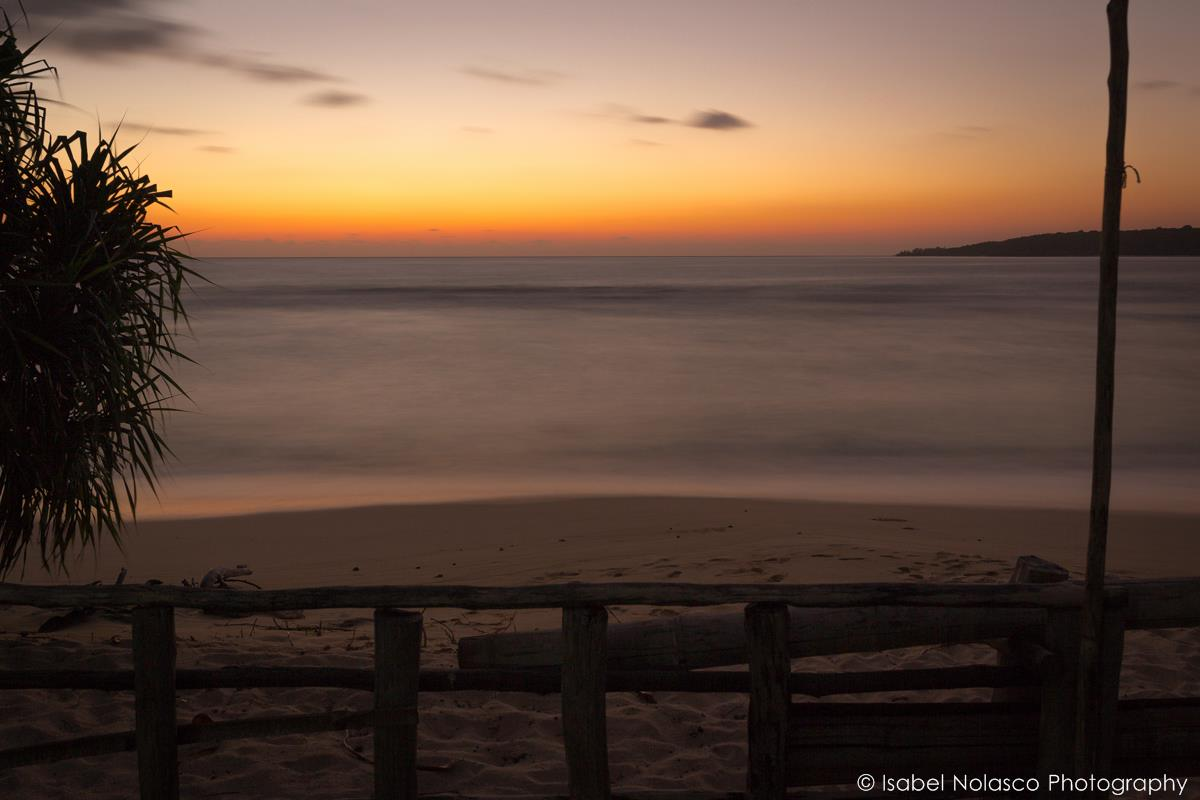 If you go to Jaco you can't miss the sunrise from Valu beach, opposite to the island (which you can see in the photo). Here is the one I photographed on my last trip.